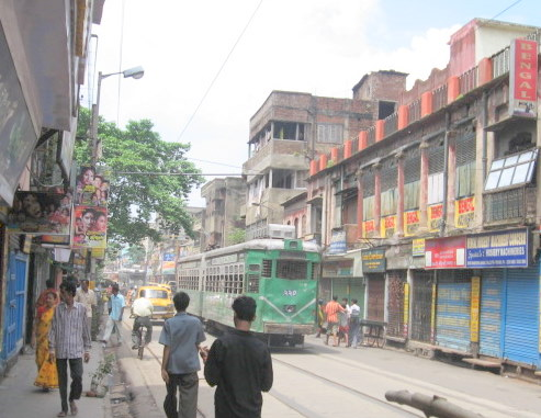 Rabindra Saeani, Kolkata